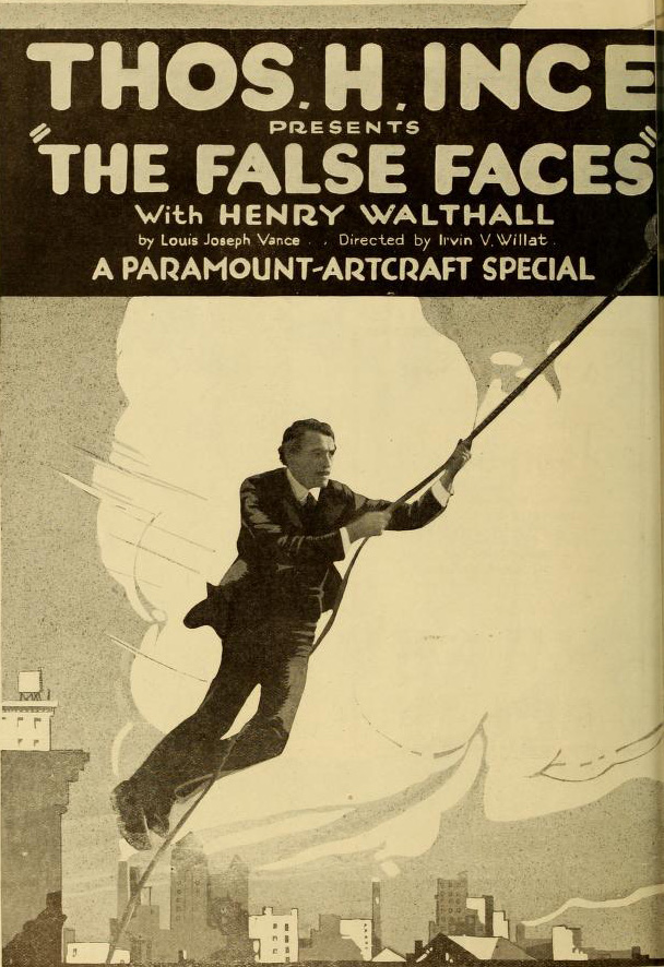 Advertisement in Moving Picture World